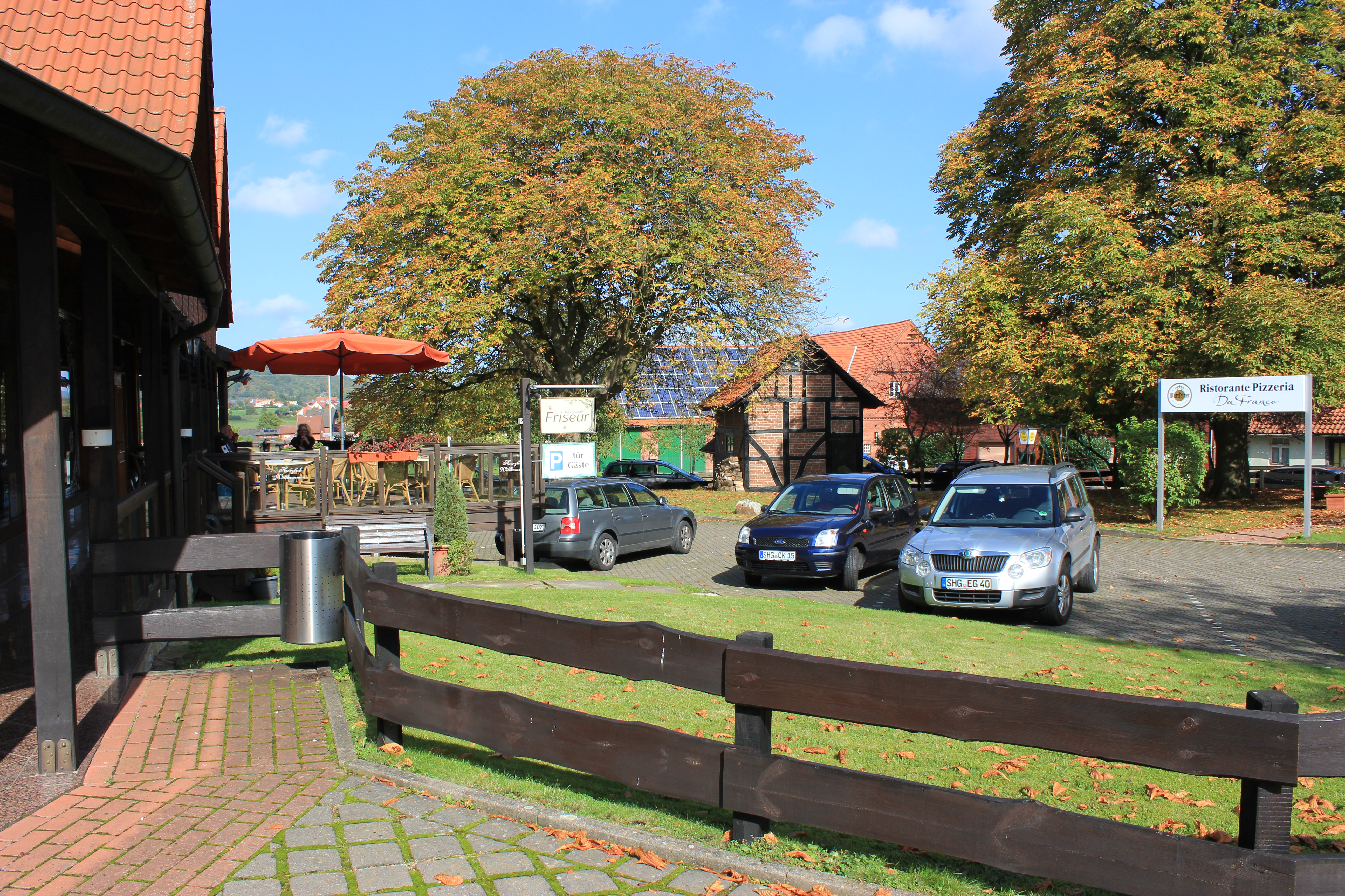 Dieses Bild zeigt den Dorfkern der Gemeinde Luhden mit dem Kastanienhof und den charakteristischen Kastanienbäumen. Links sieht man die Luhdener Ladenzeile.